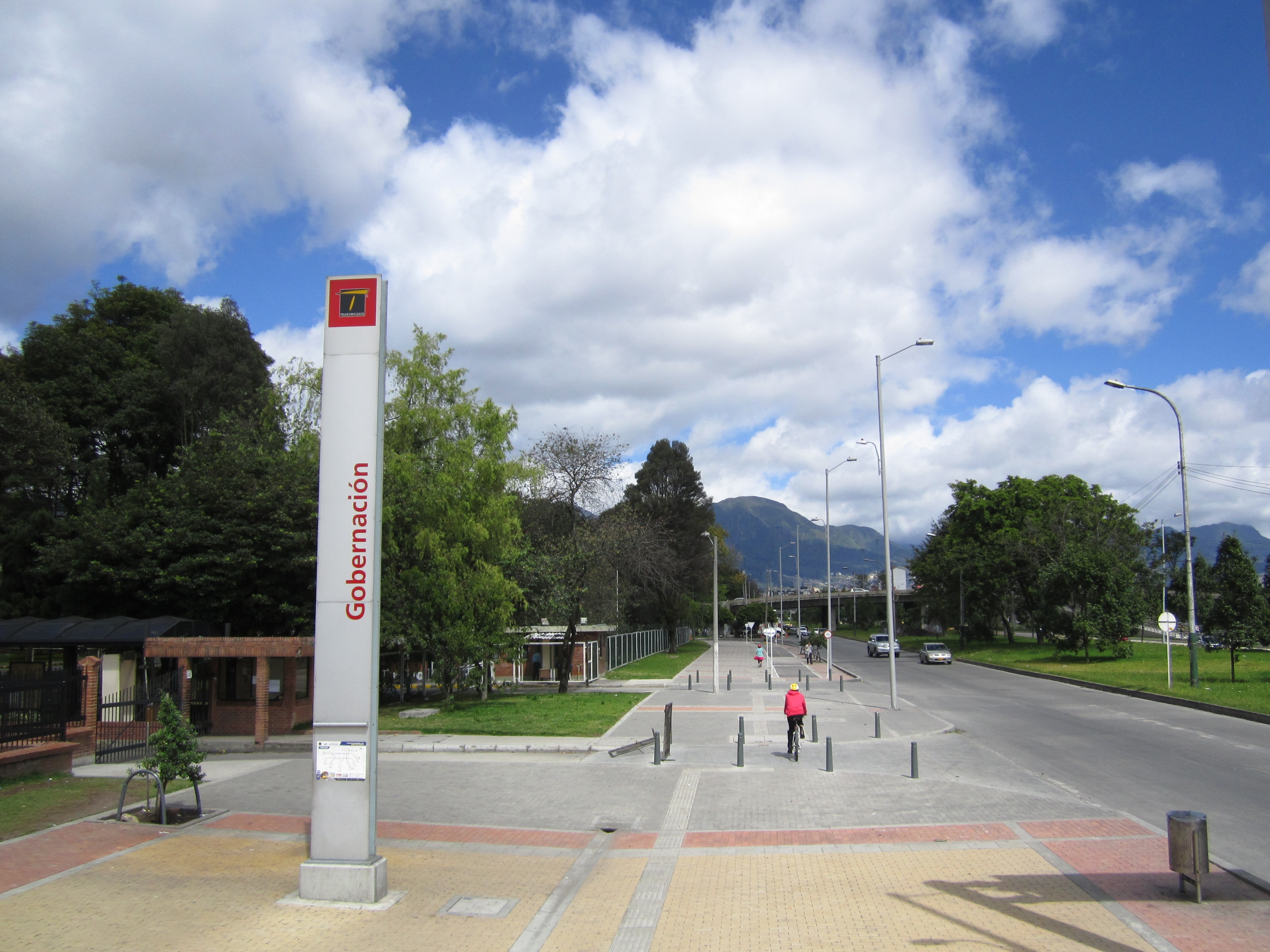 Bogotá